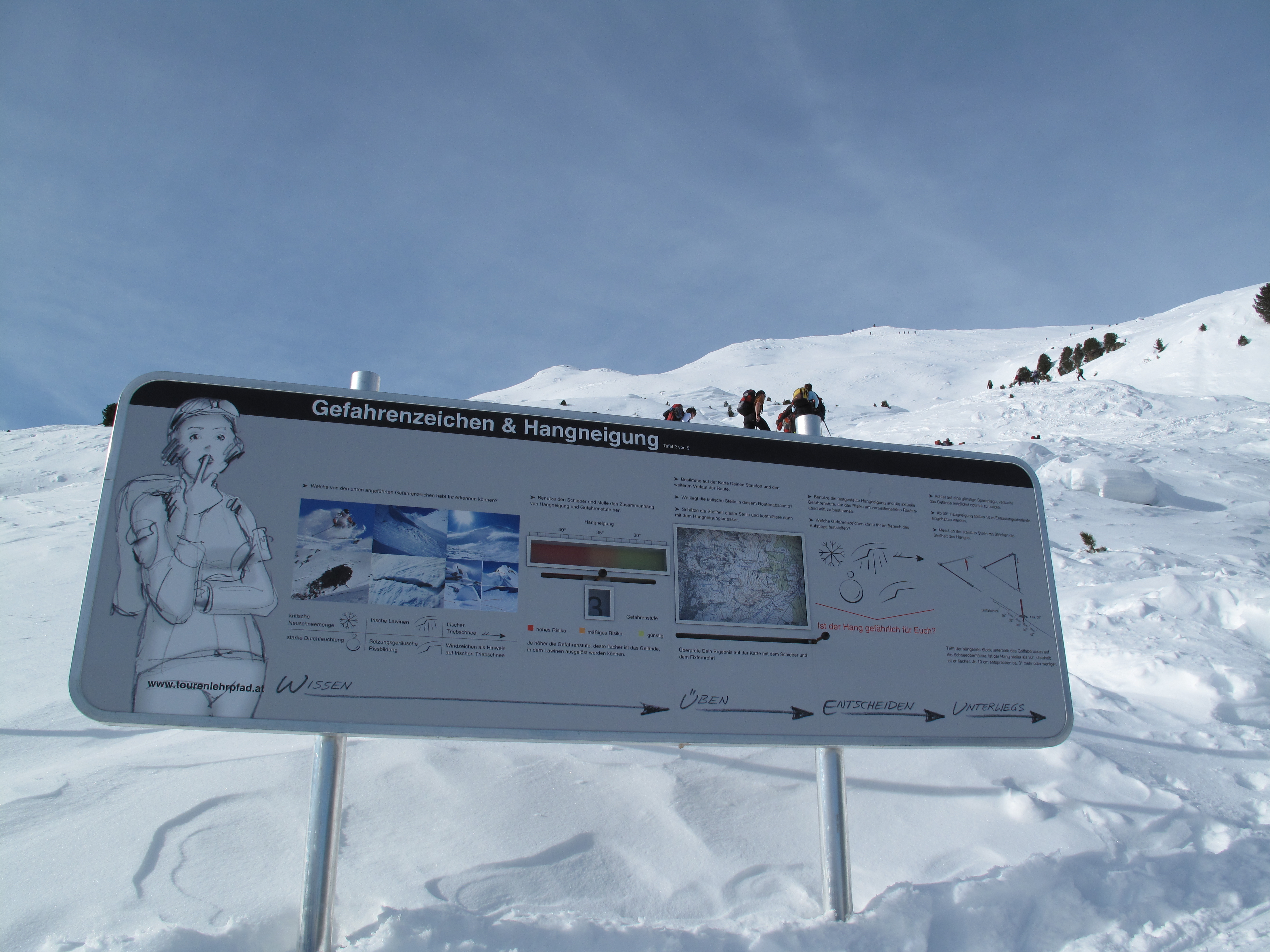 Lampsenspitze, Stubai Alps